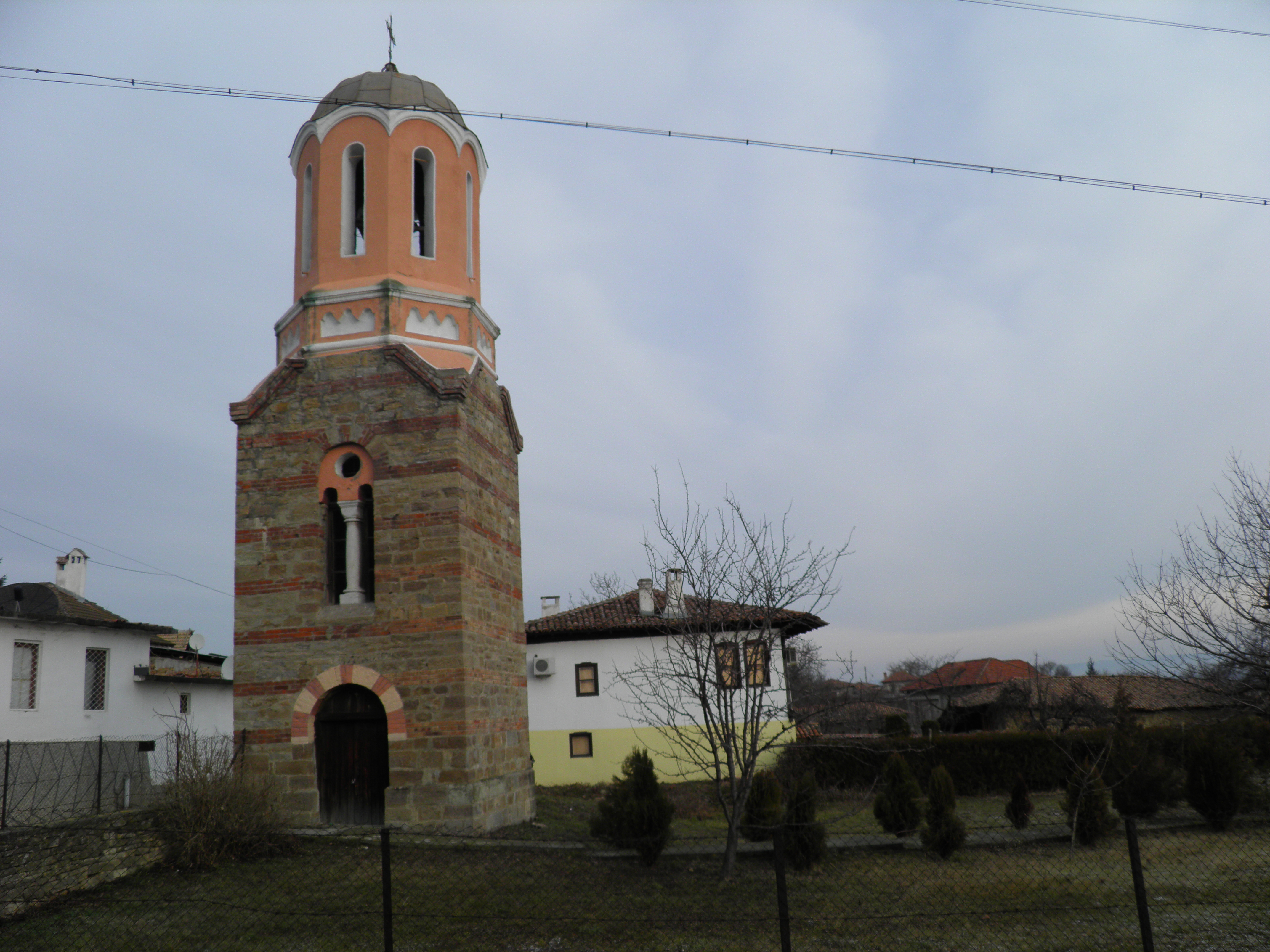 Chucrch Dragizhevo Bulgaria